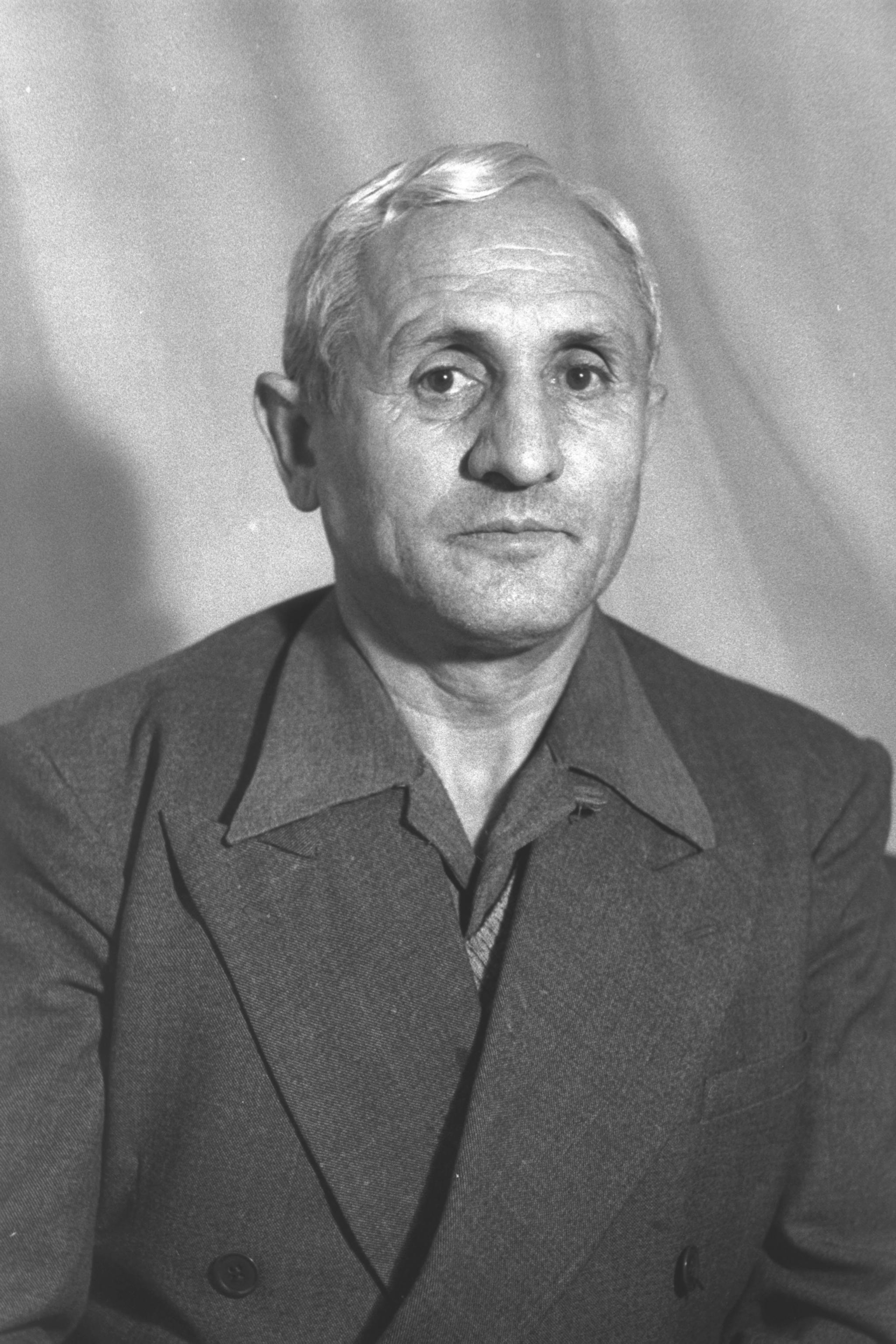 Portrait of Shmuel Dayan, Mapai party.